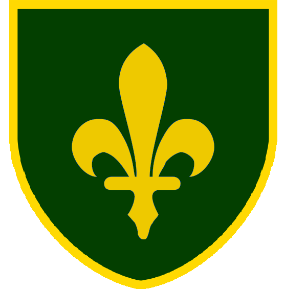 Bosniak Coat of Arms (from the Flag of the Federation of Bosnia and Herzegovina)